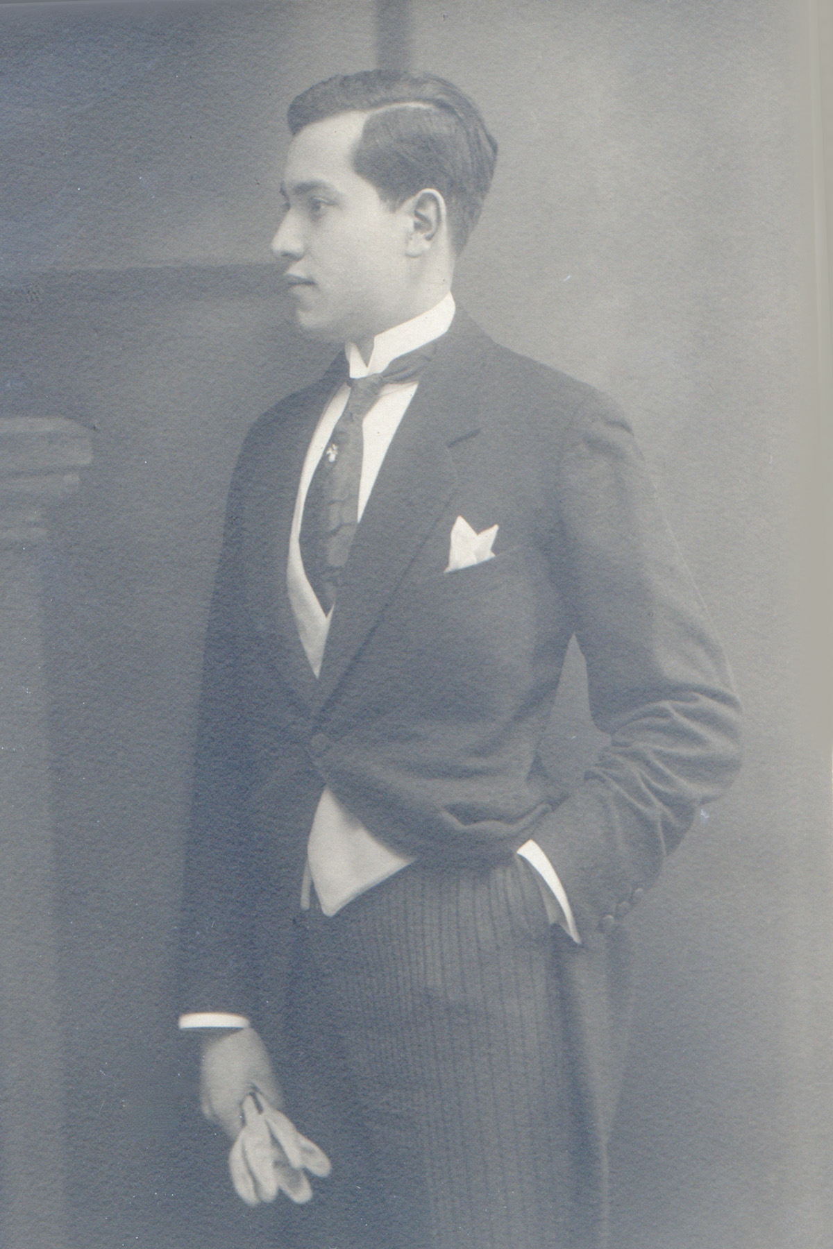 Juan Rivero Torres 1920